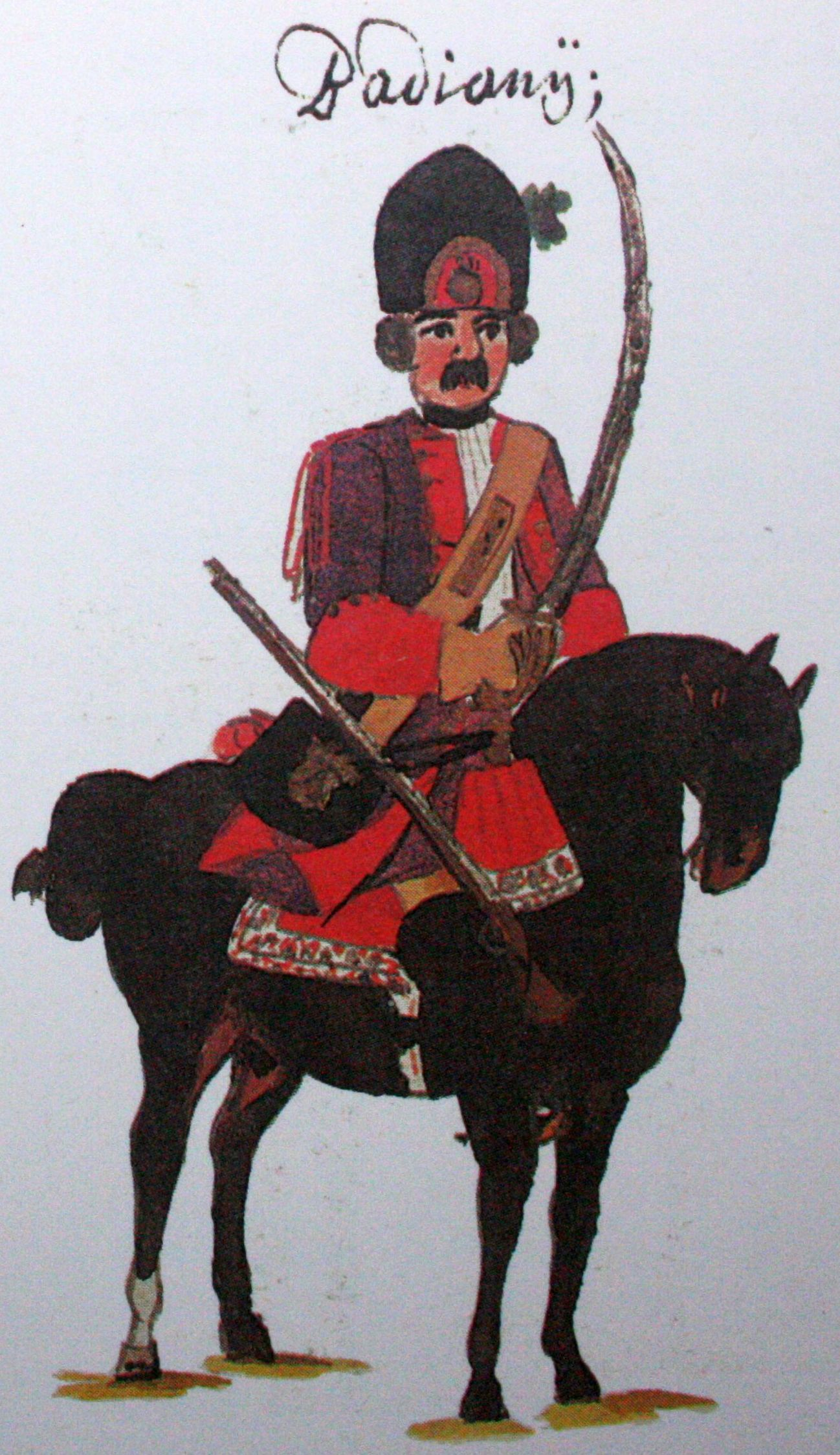 Károlyi Husar of the imperial army (Austria) 1734 Gudenus-Handschrift